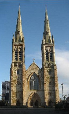 St Peters Belfast